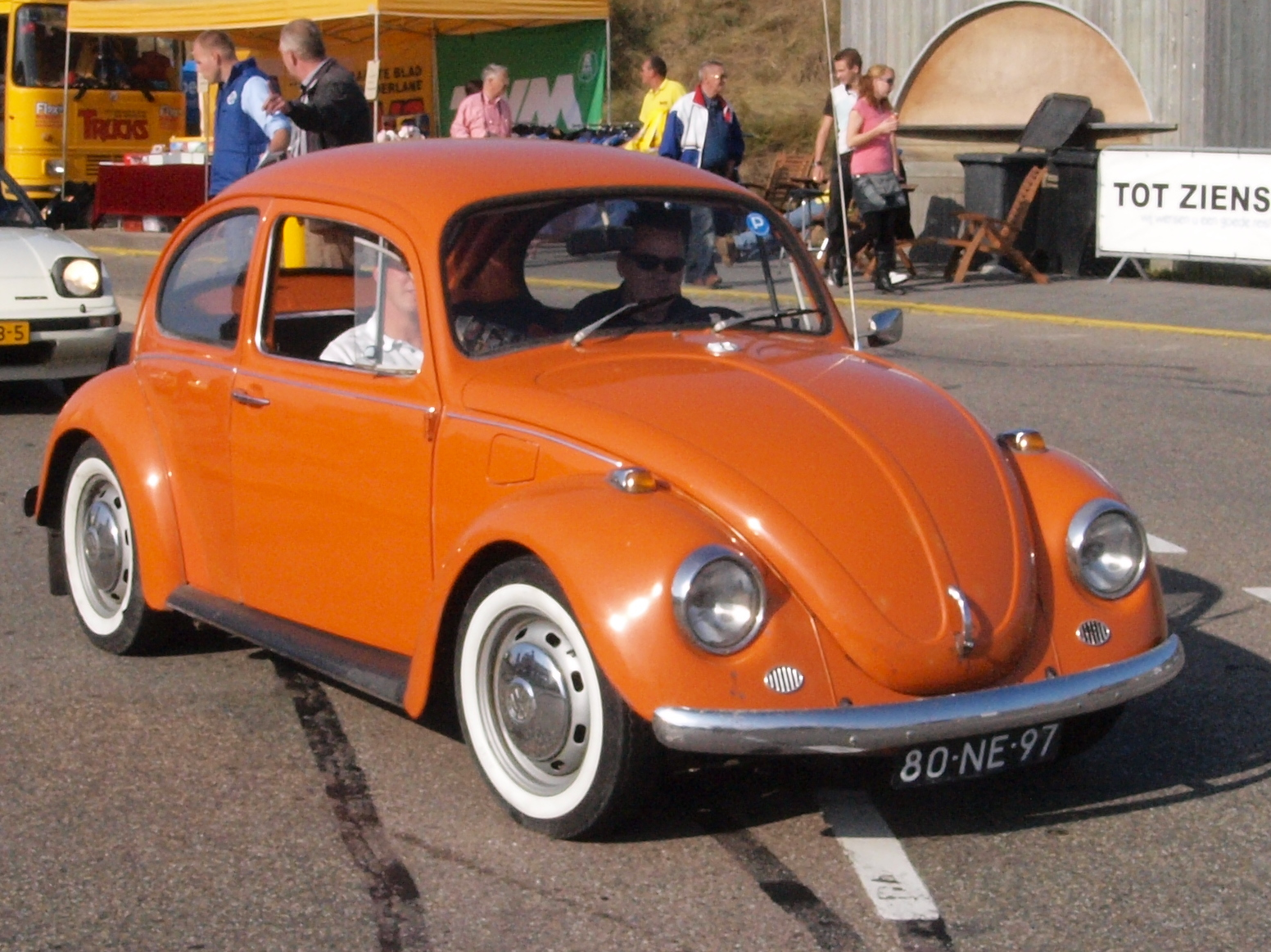 Photographed at the Nationaal Oldtimer Festival Zandvoort 2009, The Netherlands. OLYMPUS DIGITAL CAMERA